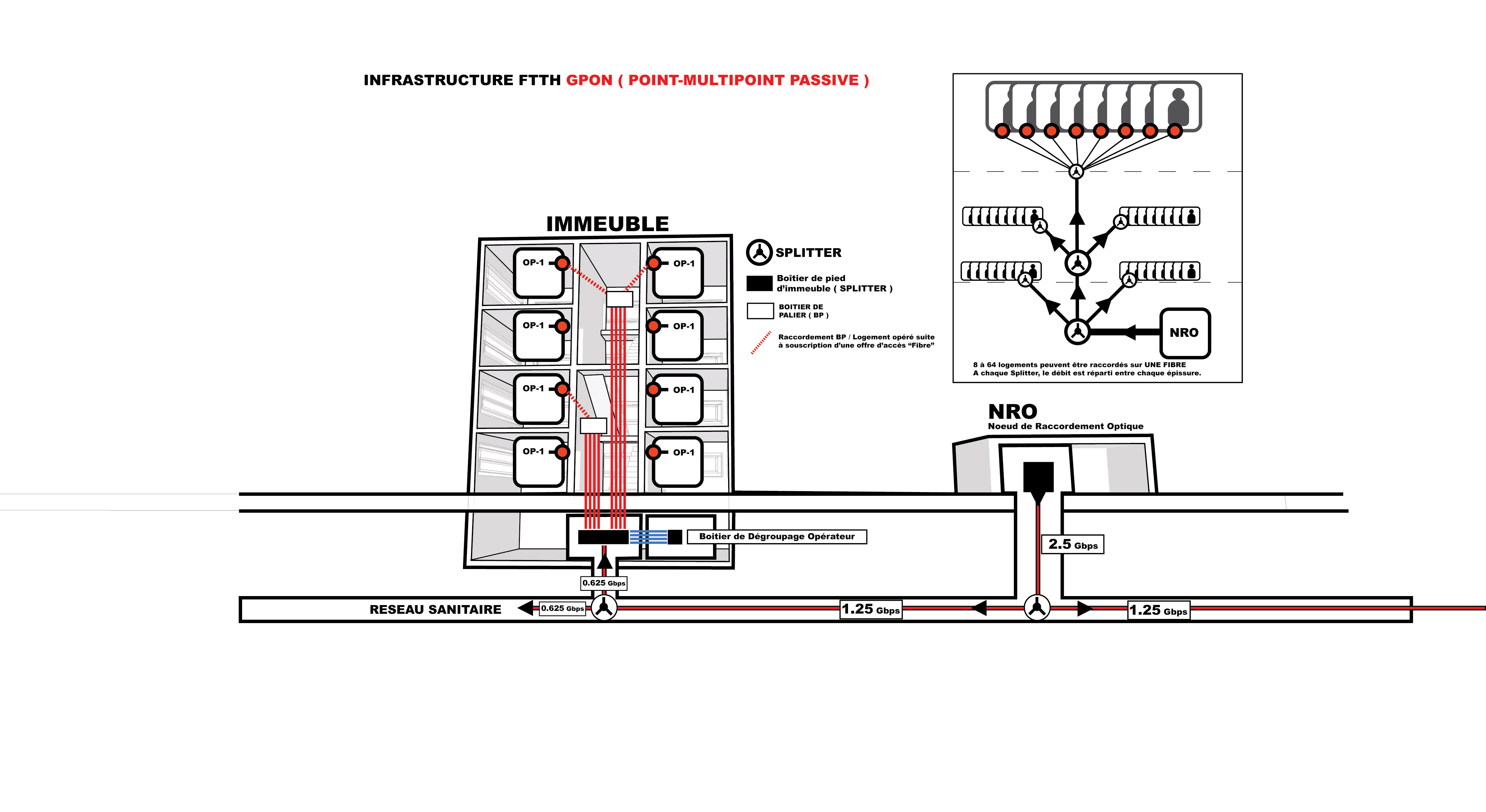 This is the sheme of the FTTH_GPON optical fiber deployment. This is to be compared with the FTTH_P2P sheme.Image:Ftth_p2p_french.svg The Gpon is an easy way to bring optical fiber to home users, but that technology splits the broadband between users. The p2p technology ( point to point ) is more costly, but is the only way to give the home user a dedicated optical fiber. Will try to edit an english version soon.